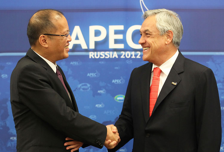 President Benigno S. Aquino III with Republic of Chile President Sebastian Piñera during the bilateral meeting at the sidelines of the 20th Asia-Pacific Economic Cooperation (APEC) Leaders' Summit at the B-2, Conference Center, Block B, Far Eastern Federal University in Russky Island, Vladivostok, Russia on September 08, 2012.